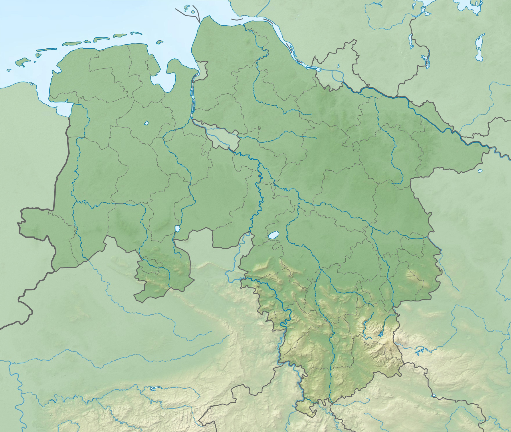 Physical Location map of Lower Saxony, Germany Equirectangular projection, N/S stretching 160 %. Geographic limits of the map: N: 54.0° N S: 51.2° N W: 6.5° E E: 11.8° E